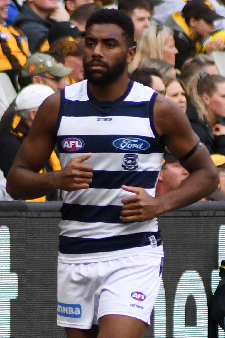 Esava Ratugolea of Geelong during the 2019 AFL round 5 match between Hawthorn and Geelong at the Melbourne Cricket Ground on Monday, 22 April 2019 in Melbourne, Victoria.